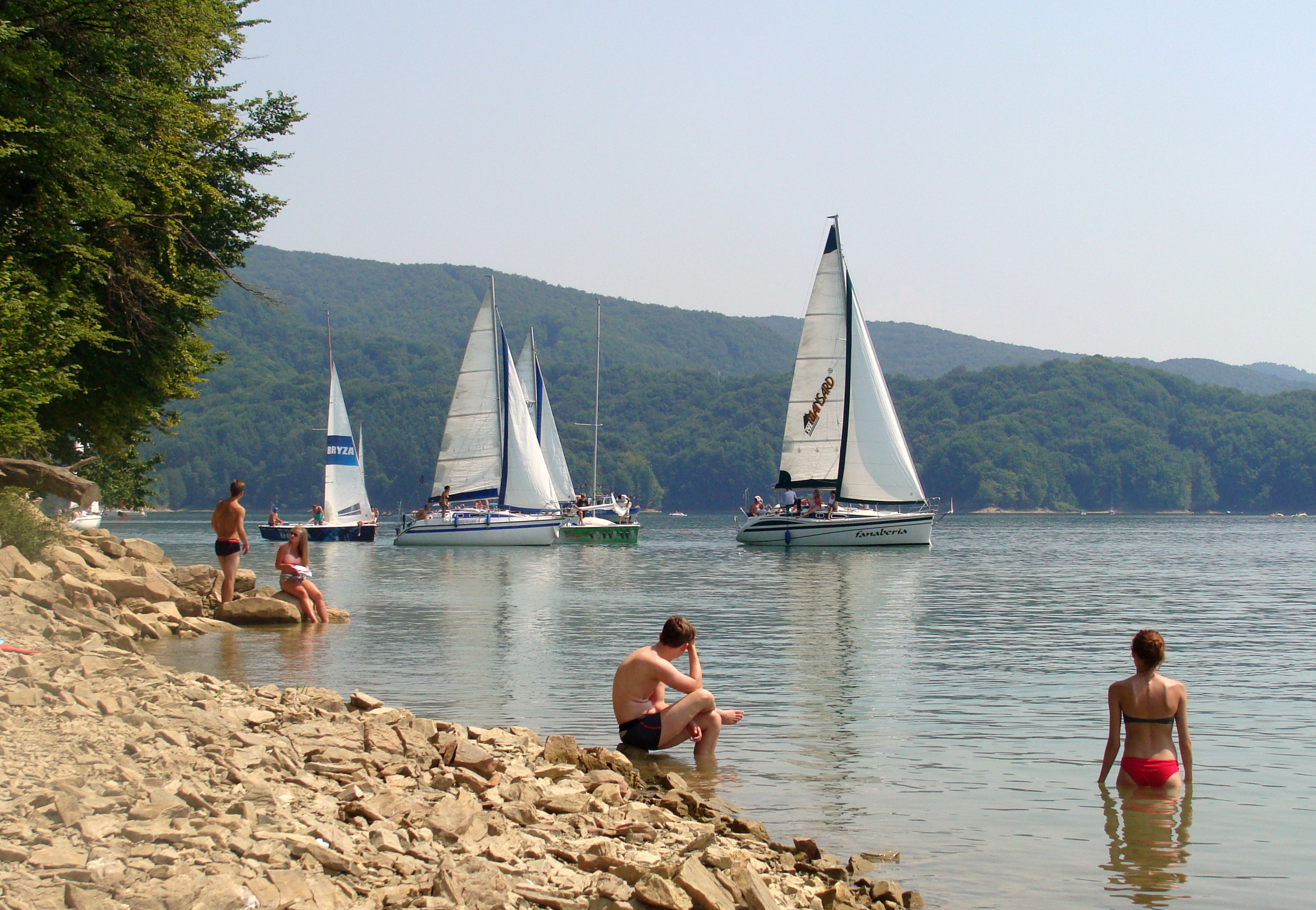 Lake Solina